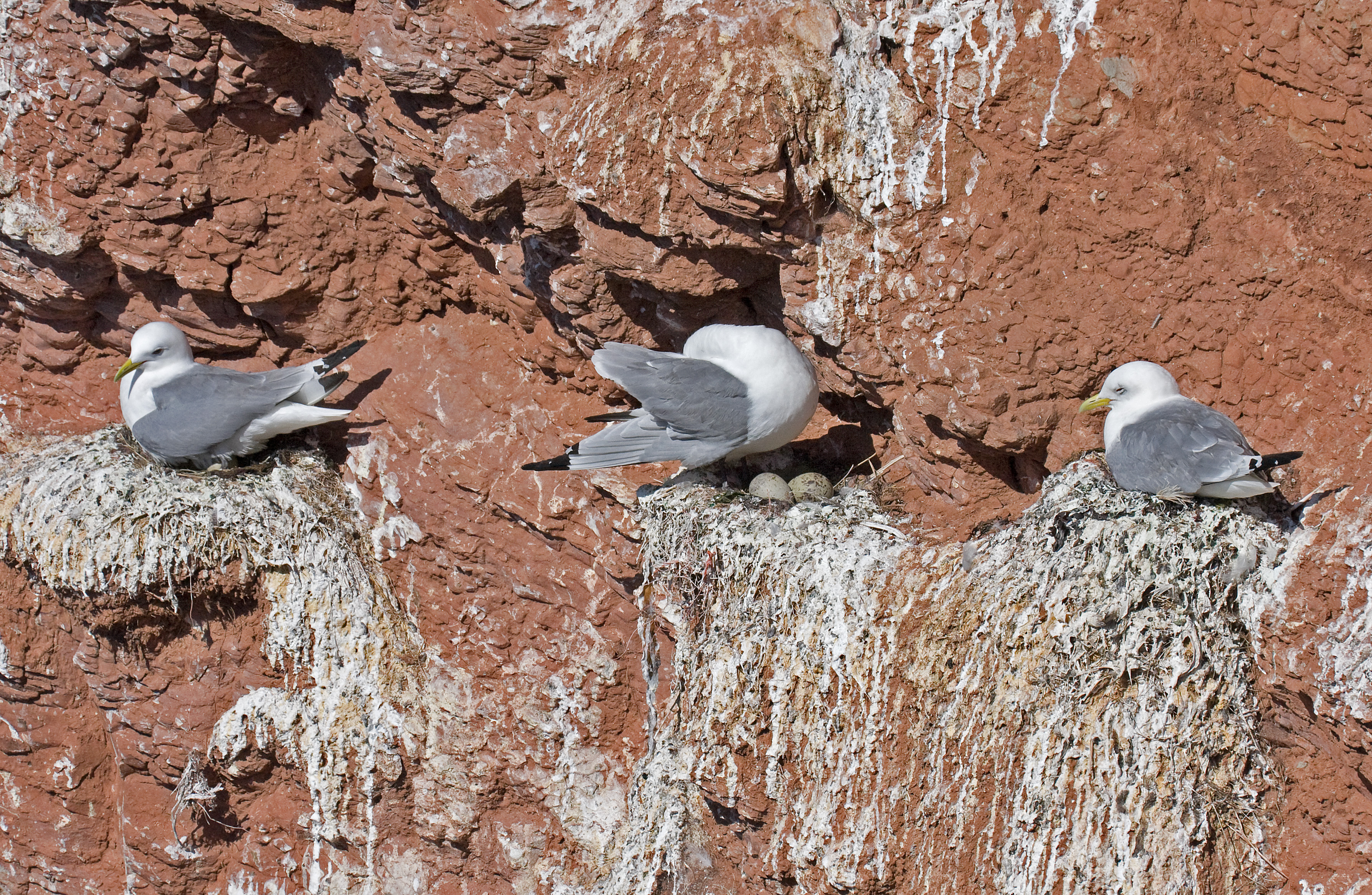 Black-legged-Kittiwake